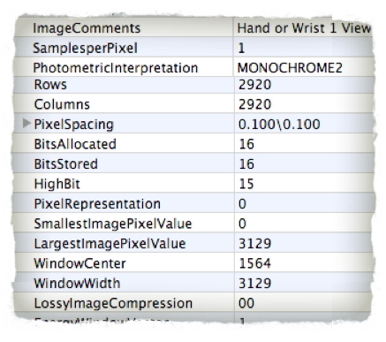 A small section of a DICOM header file.